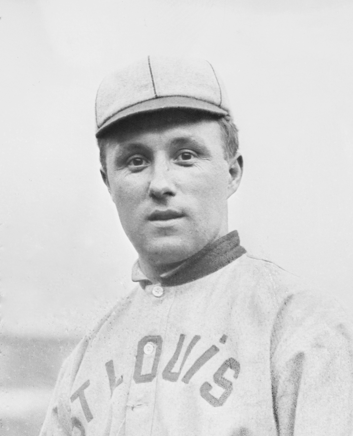 Bain News Service, publisher. [Paul Krichell, St. Louis AL (baseball)] [1911] 1 negative : glass ; 5 x 7 in. or smaller.